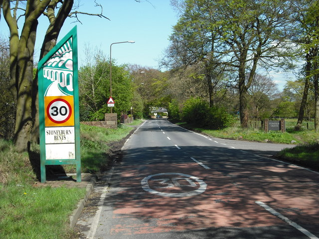 Road through Bents and Stoneyburn, near to Stoneyburn, West Lothian, Great Britain. The sign on the lamppost states 'humps' 1645yds. The number of speed bumps on this stretch of road prompted letters for and against in the local paper.